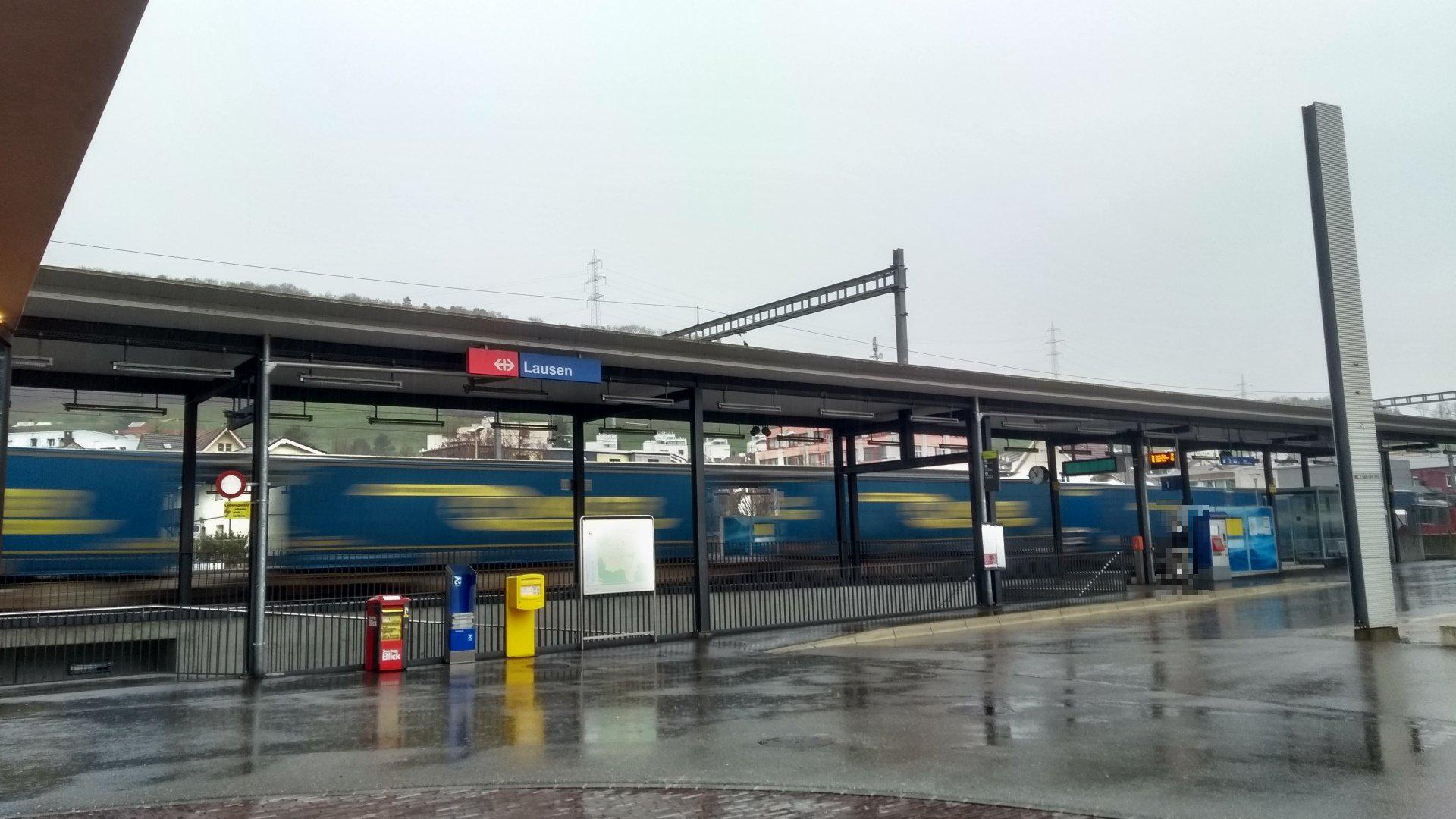 Train passing through Lausen railway station in 2018.